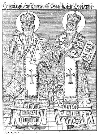 Engraving of Saint Methodius, bishop of Moravia, and St Ephraim of Serbia from "Stemmatographia" by Christofor Zhefarovich. published in 1741